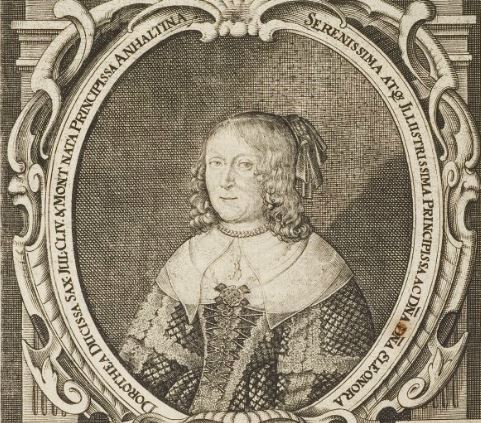 Eleonora Dorothea of Anhalt-Dessau, duchess of Saxe-Weimar